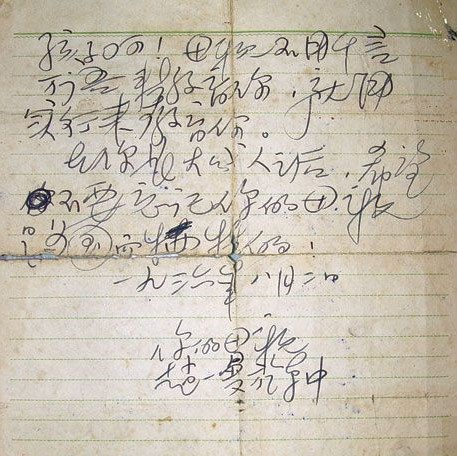 Zhao Yiman's letter to her son before her execution